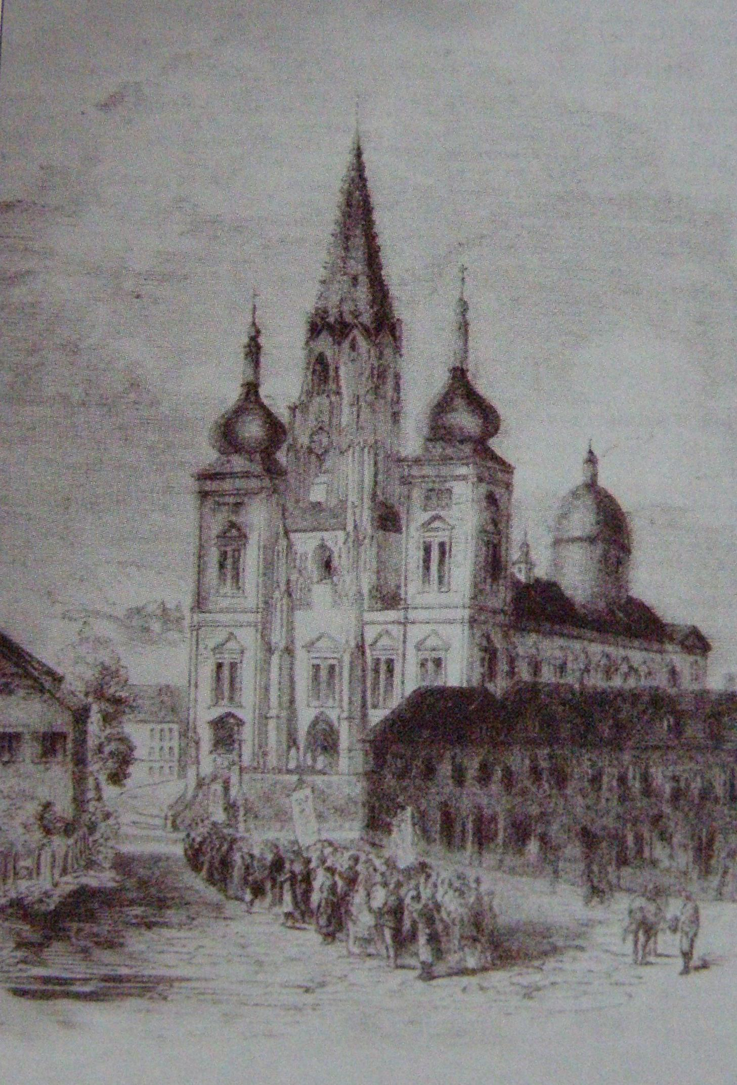 The Church of Mariazell in the 19th century